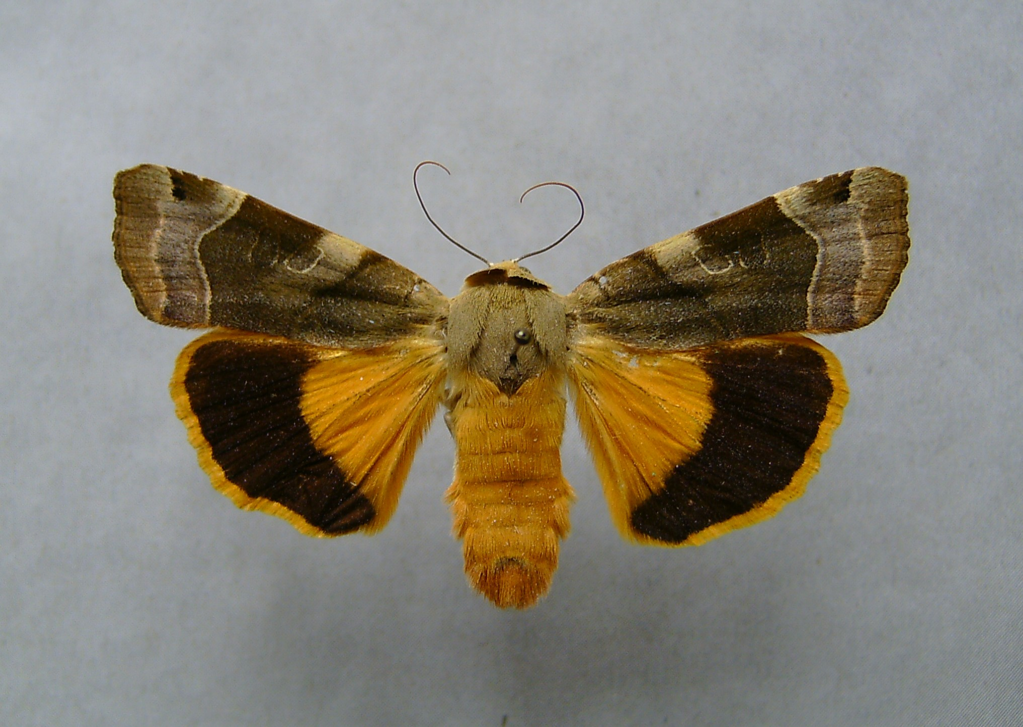 Noctua fimbriata